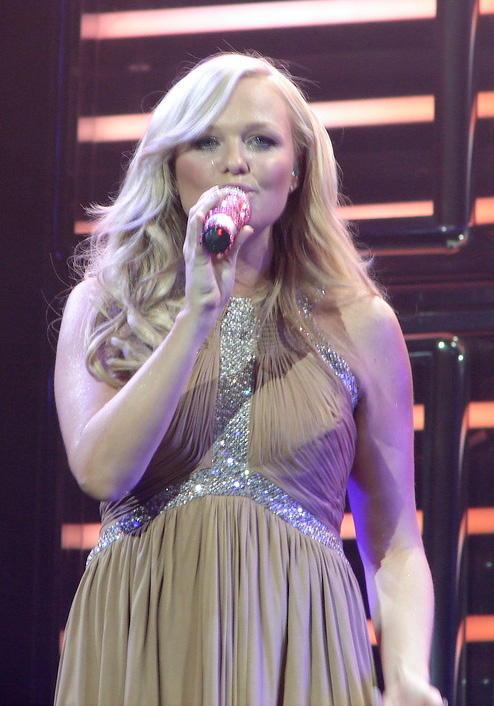 Emma Bunton performing in San Jose as part of the Spice Girls reunion tour.